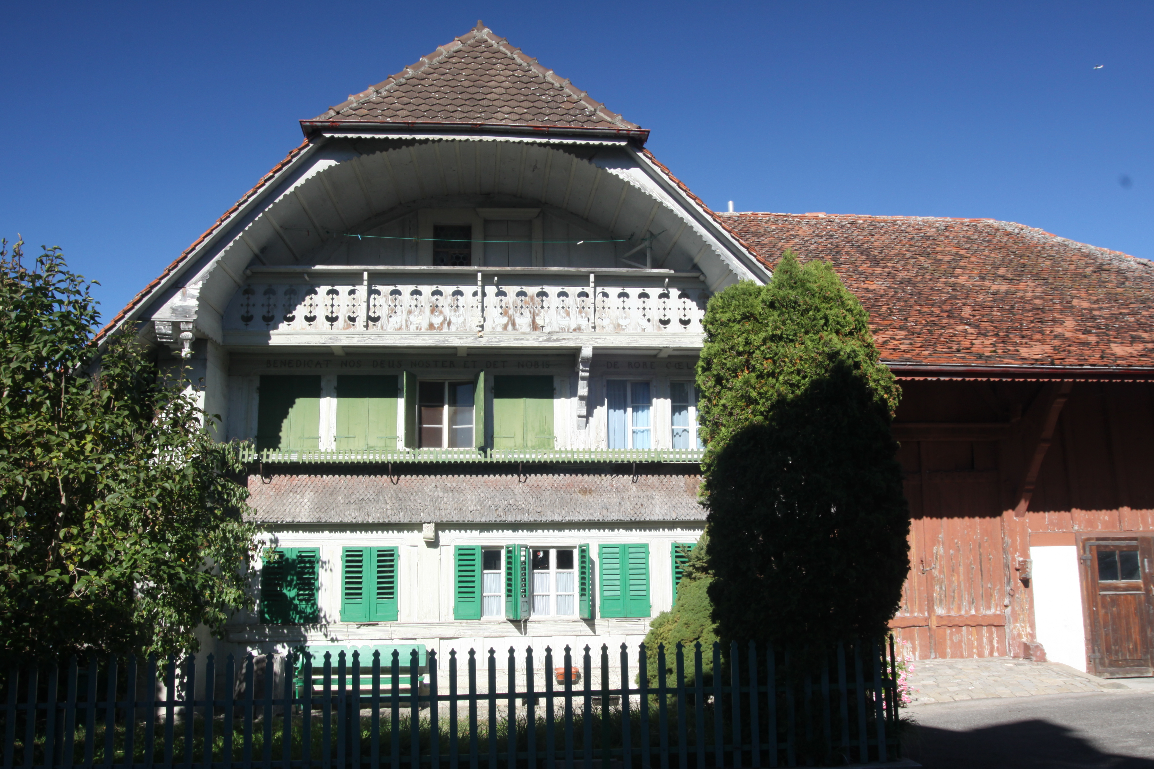 Old Rectory, Route de l’ Église 72, Praroman-Le Mouret